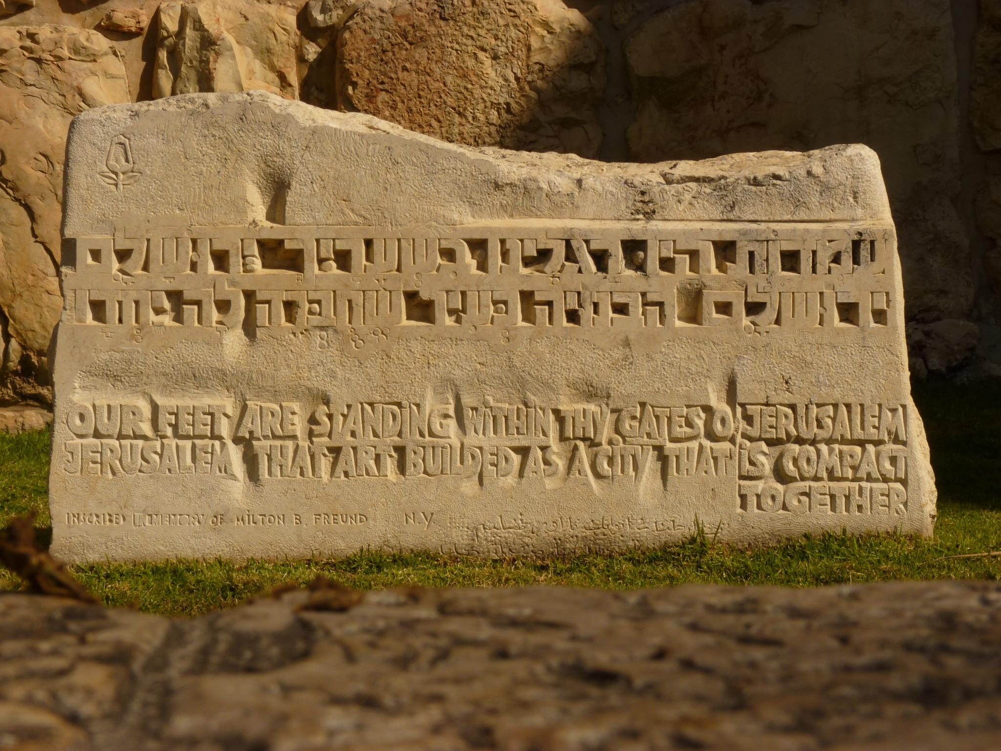 Old Jerusalem, Tzahal Square, engraved stone at the north-east corner of the Old City Walls : "OUR FEET ARE STANDING WITHIN THY GATES O JERUSALEM JERUSALEM THAT ART BUILDED AS A CITY THAT IS COMPACT TOGETHER" (Psalm 122).